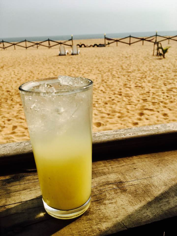 pineapple juice on beach, Cotonou This is an image from Benin